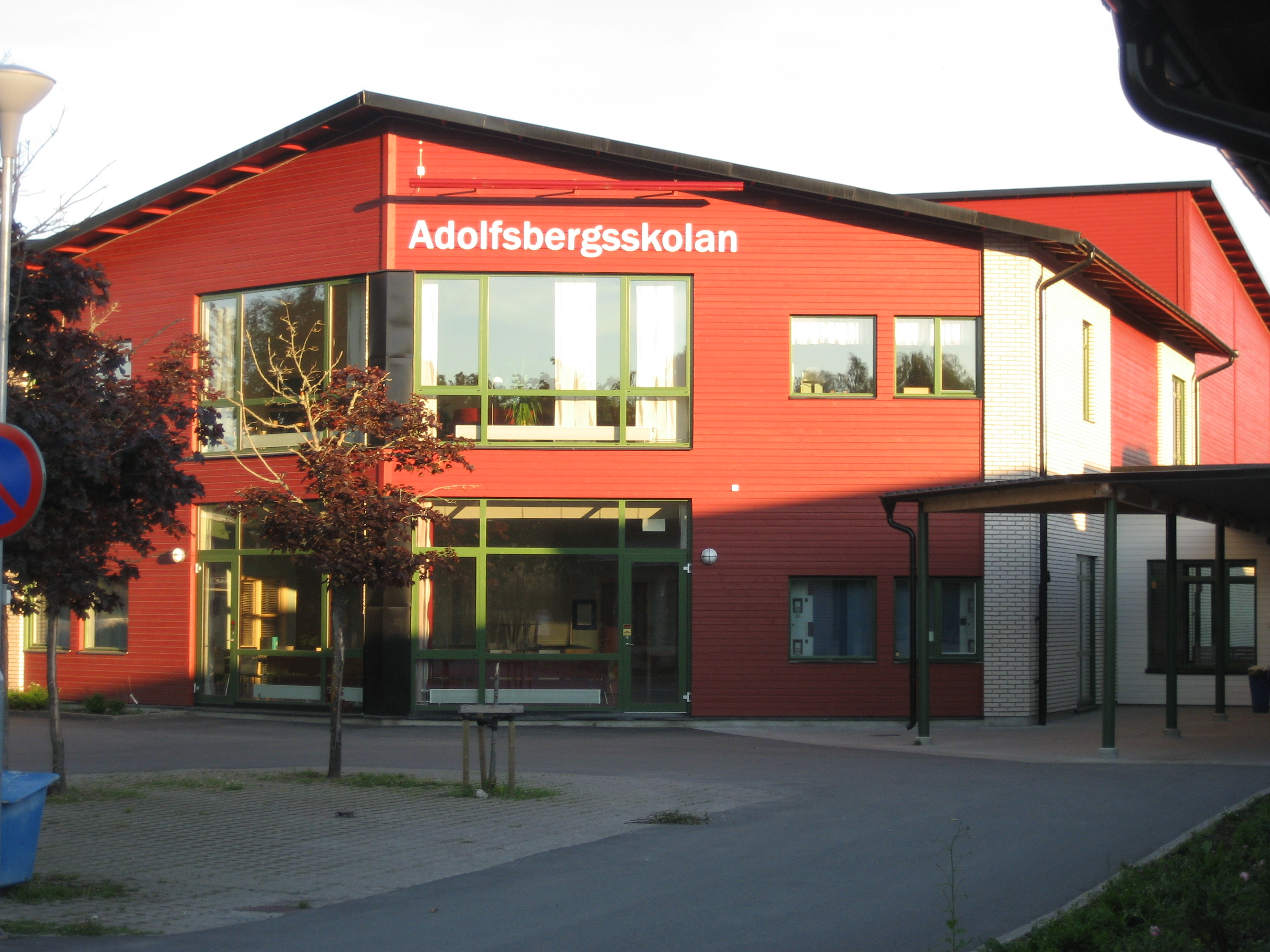 The school of Adolfsberg, Sweden